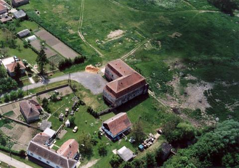 Vasszécseny, Hungary, aerialphotgraphy This is a photo of a monument in Hungary, Identifier: 9484